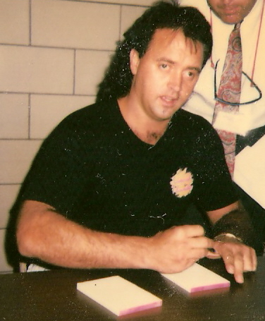 Professional wrestler Robert Gibson, in a scan of a Polaroid photo taken by me (Xoloz) at an autograph signing in 1991, at the height of his career.